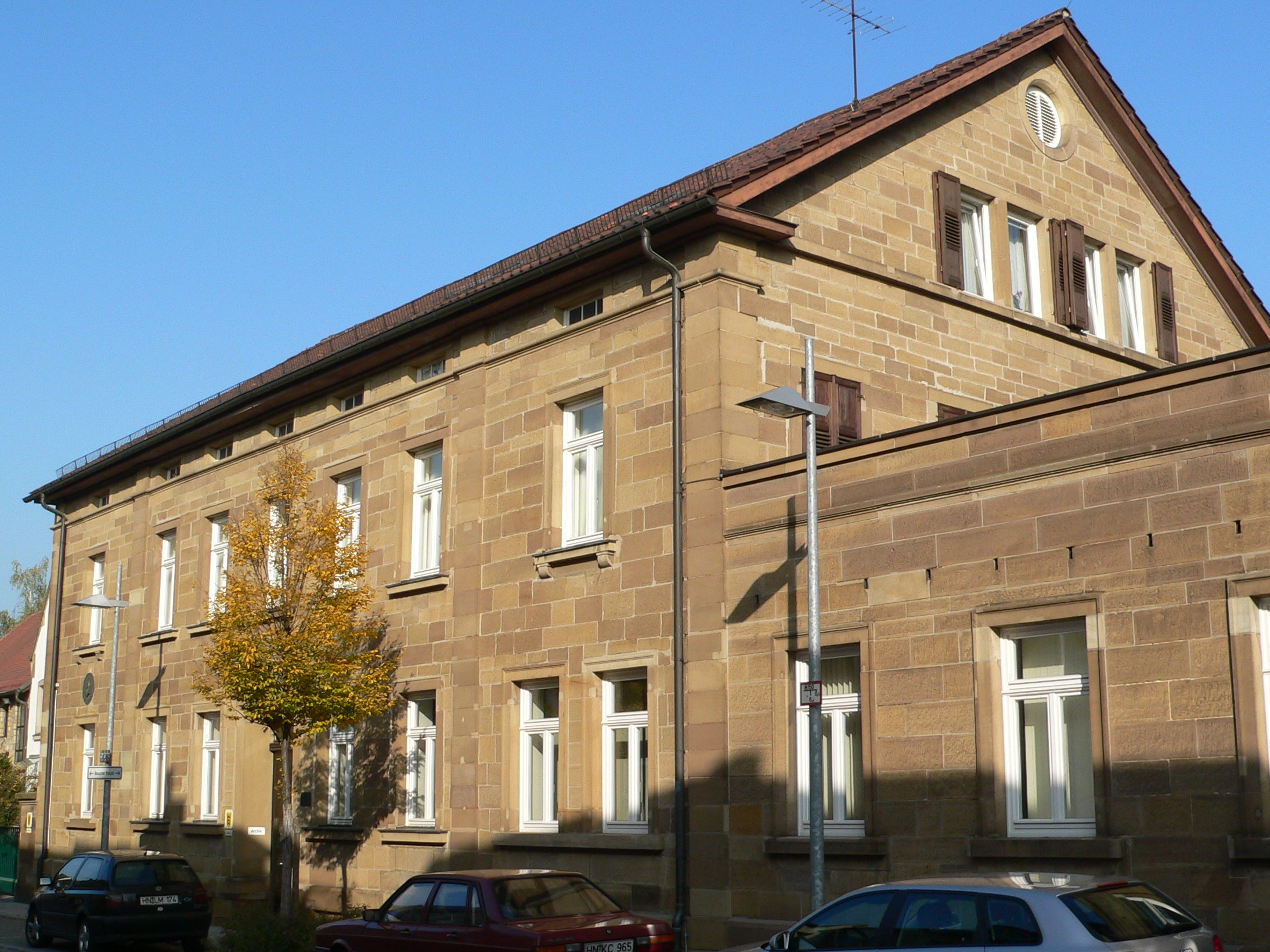 Former county court so called "Oberamtsgericht" of the city Neckarsulm